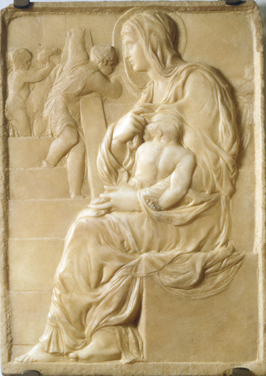 Madonna della scala, by Michelangelo, Florence, Casa Buonarotti